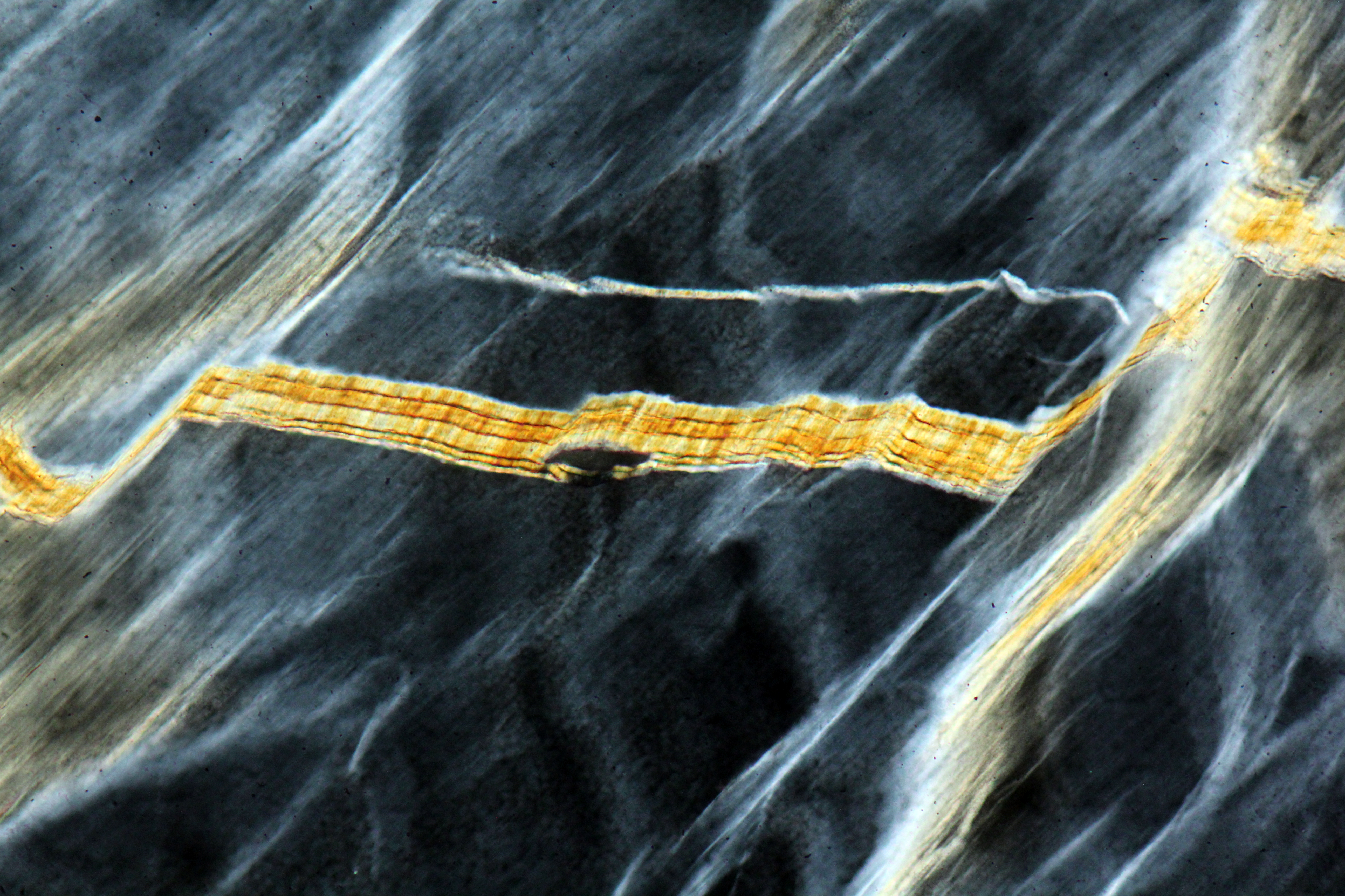 Yellow vein of serpentine in a gray serpentine groundmass. Crossed nicols image, magnification 20x (Field of view = 1mm)